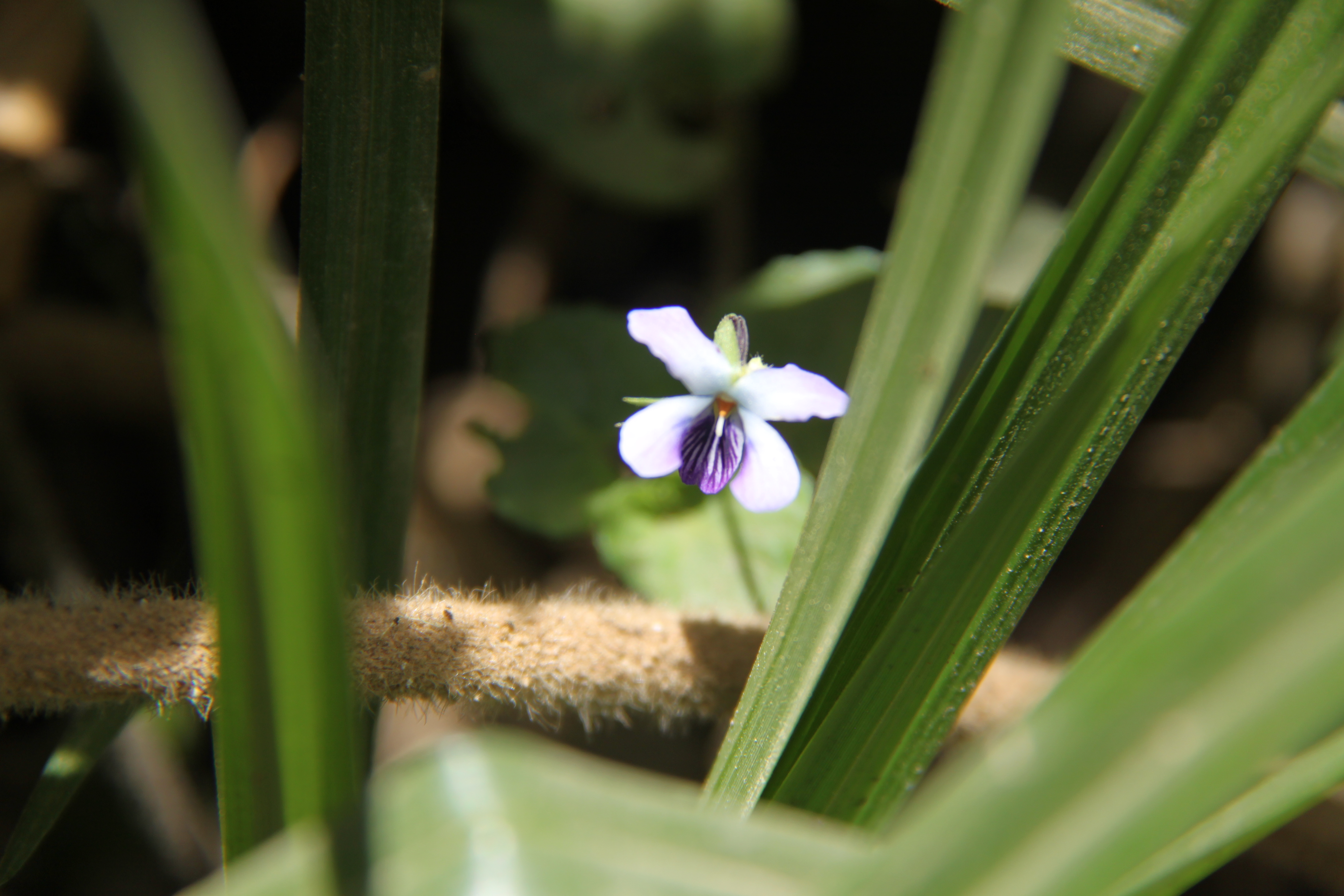 The violet Viola abyssinica, flower about 1 cm across, photographed at approximately 2750 m altitude, along the Chogoria route, Mount Kenya